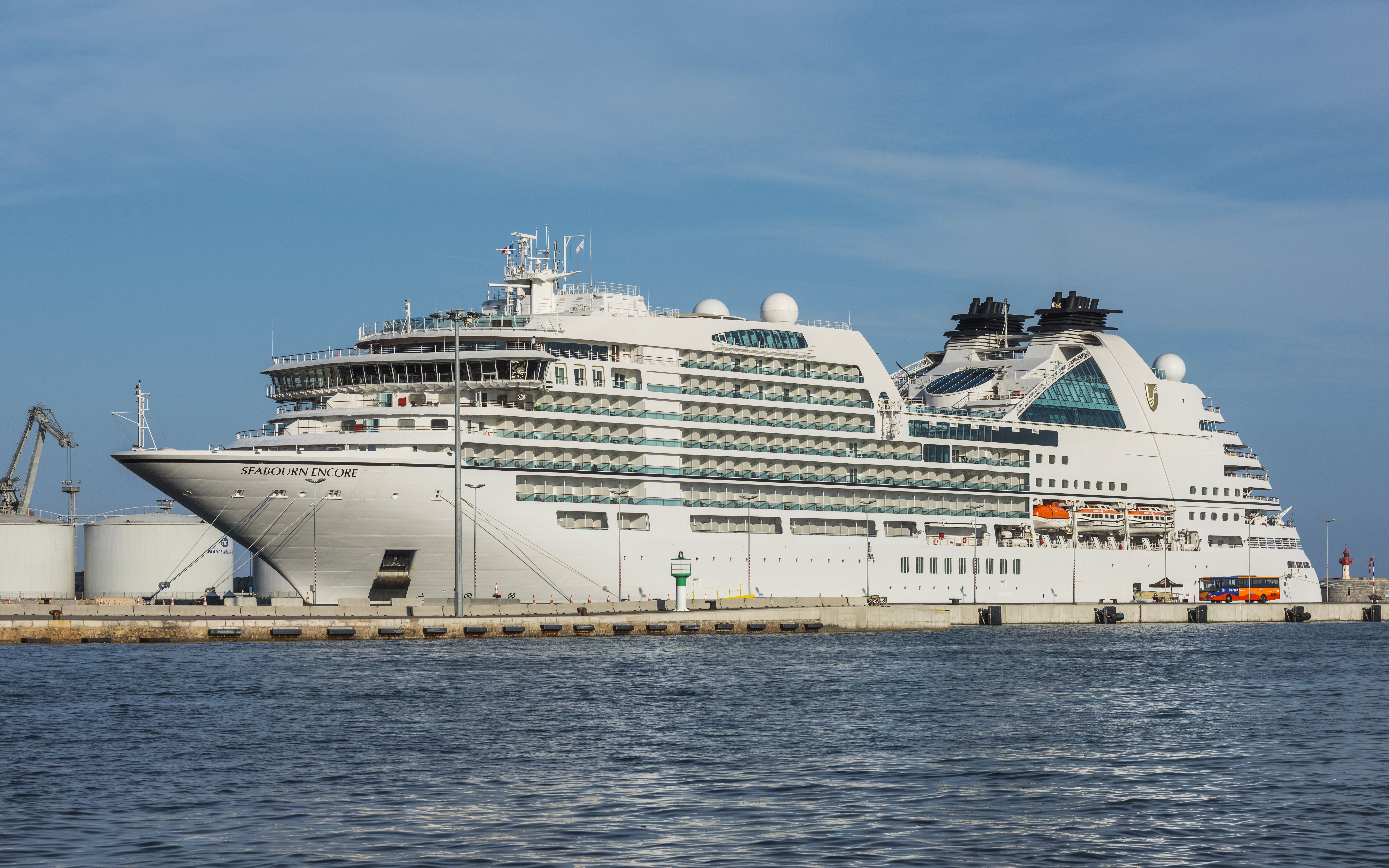 Seabourn Encore (ship, 2016), Sète, Hérault, France